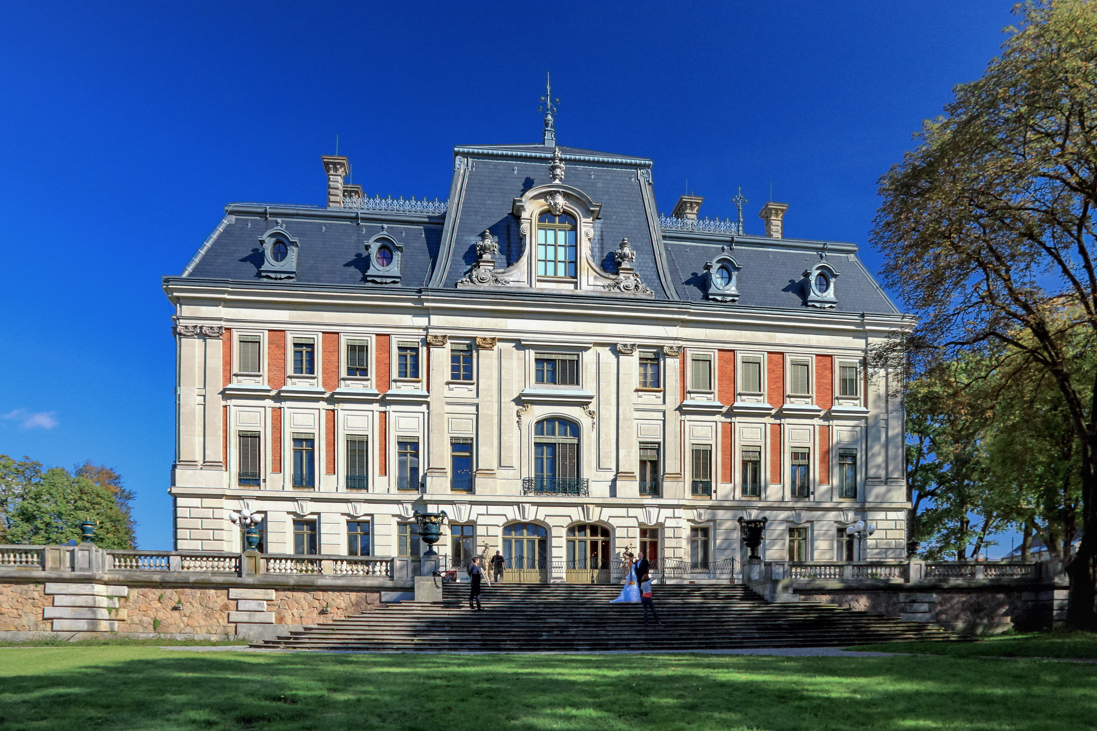 Palace (Castle Museum). Pszczyna, Silesian Voivodeship, Poland.